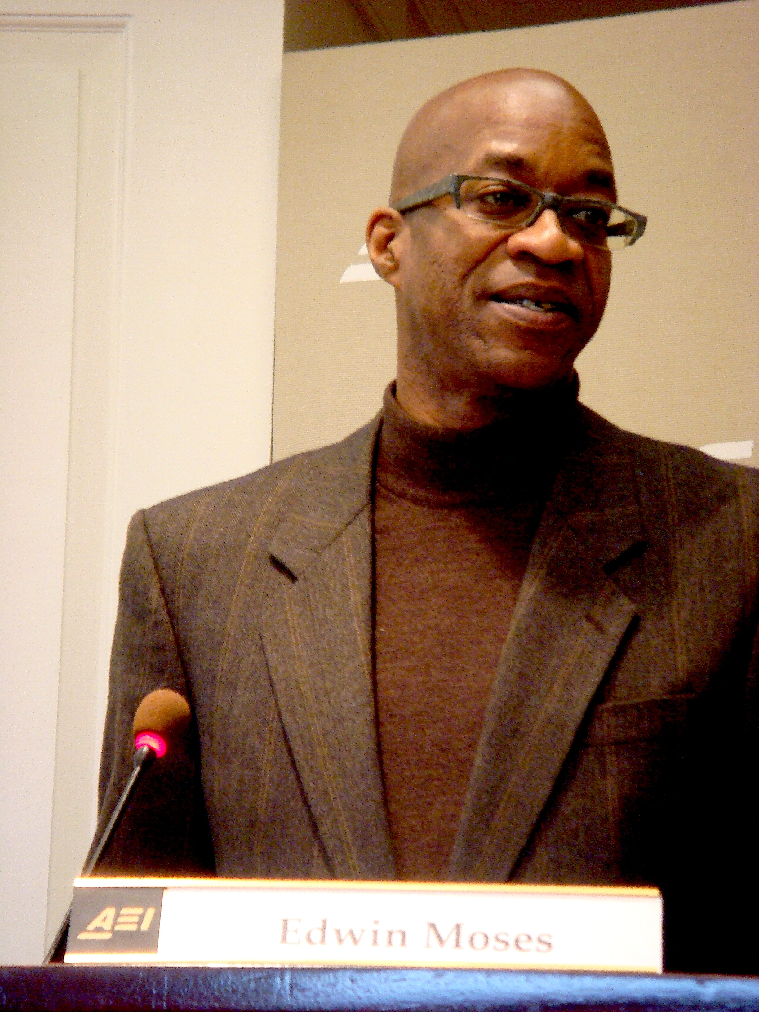 Edwin Moses